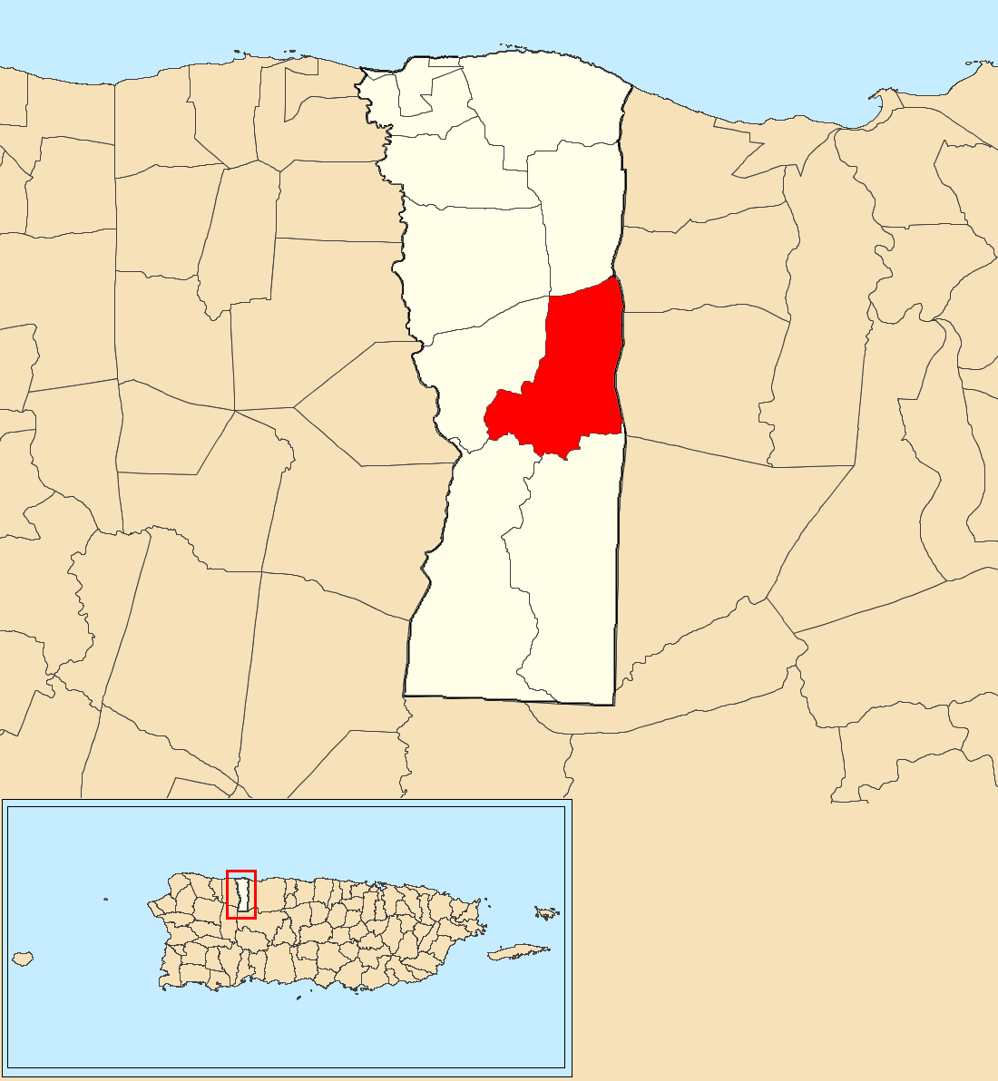 Campo Alegre, Hatillo, Puerto Rico locator map